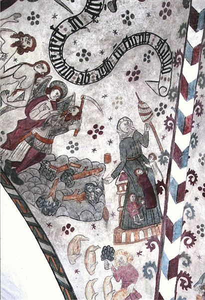 Tågerup Kirke (church)